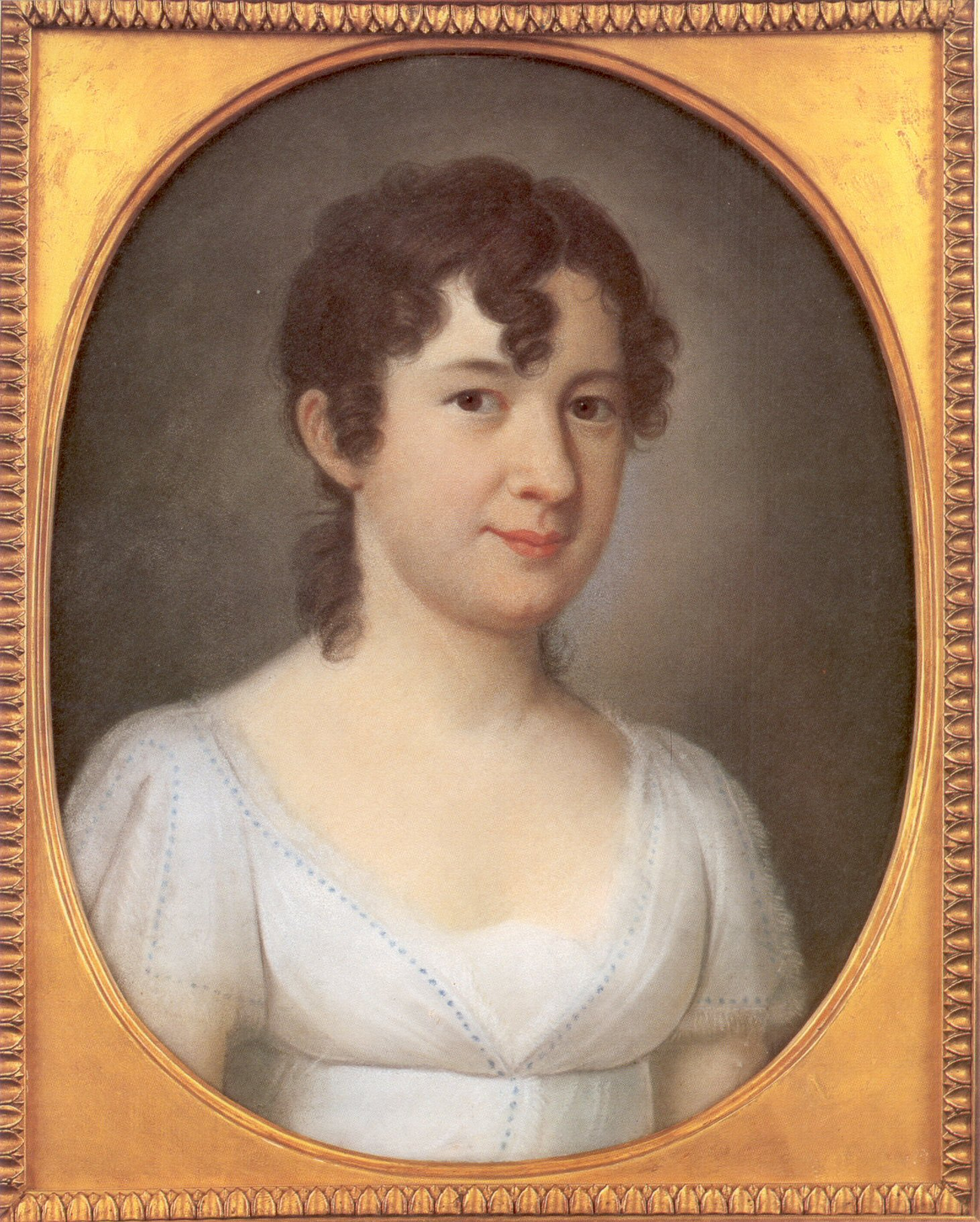 Portrait of Marianne von Willemer, mistress of Johann Wolfgang von Goethe